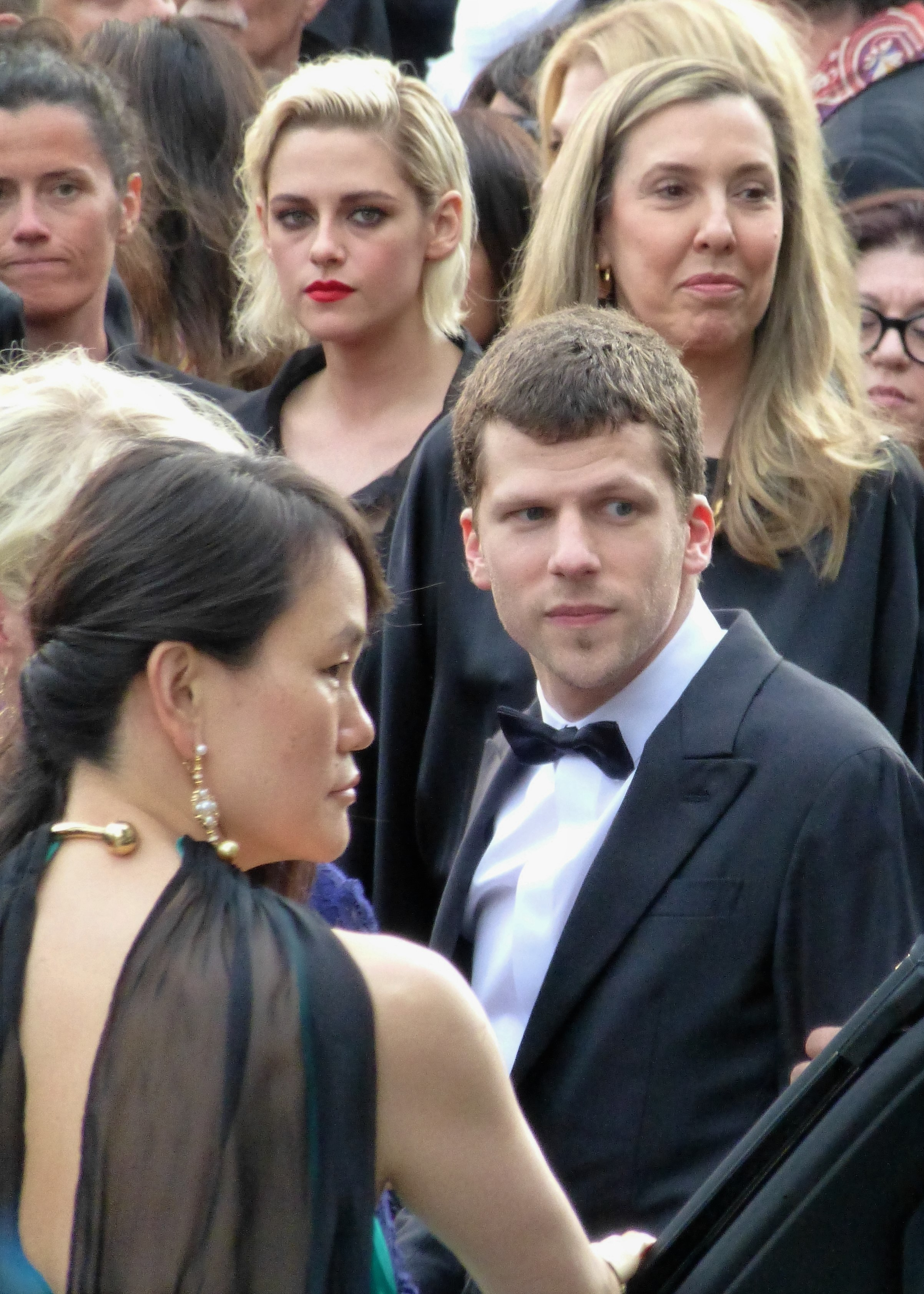 A weirdly lucky timed picture Soon Yi Previn, Kristen Stewart, and Jesse Eisenberg at the world premiere of Cafe Society, 2016 Cannes Film Festival